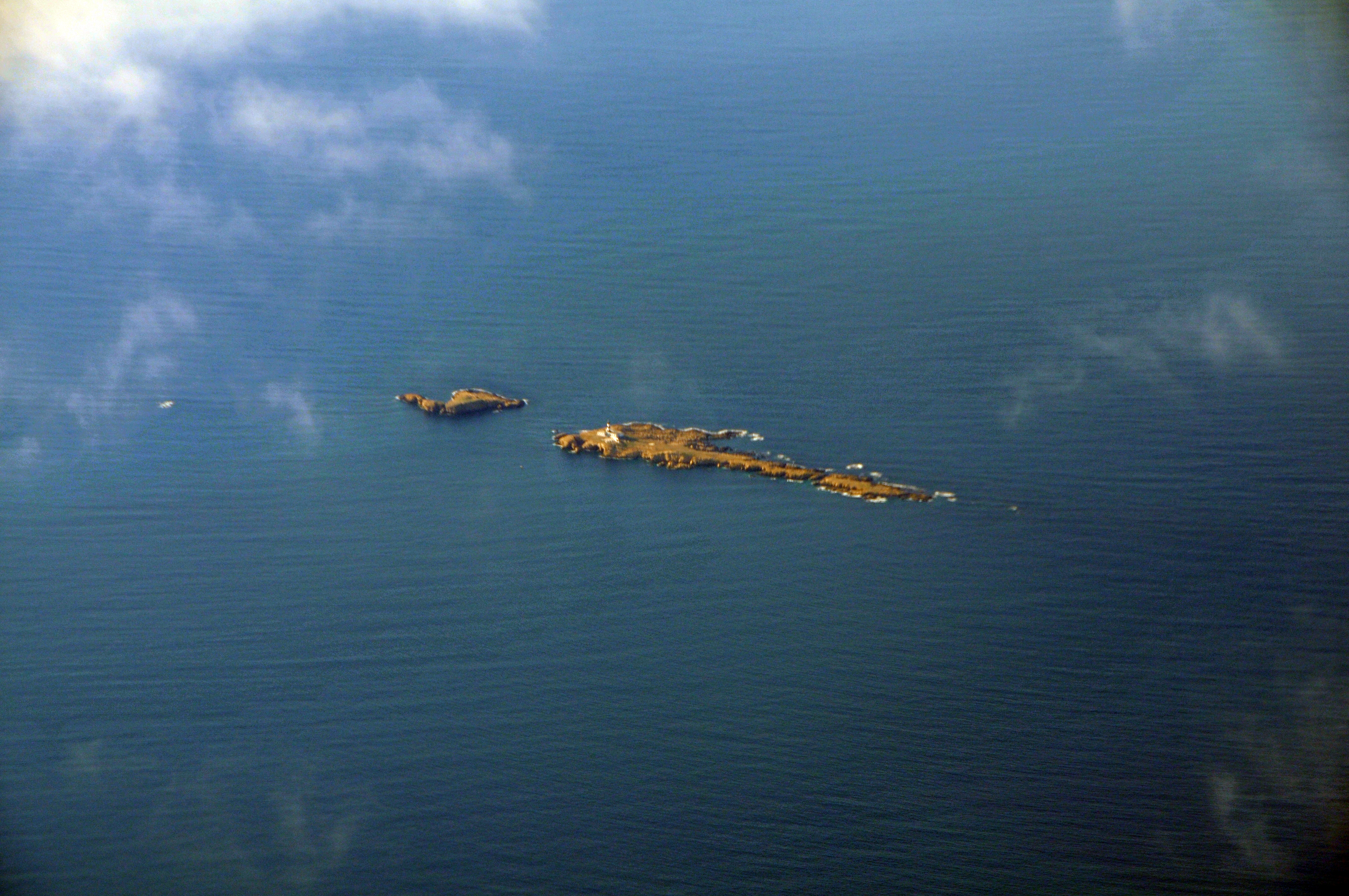 Aerial view of Cani Islands (Tunisia) in the Mediterranean